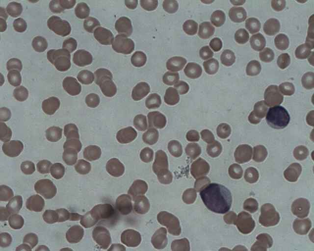 A case of Acute Myeloid Leukaemia show characteristic Myeloblast